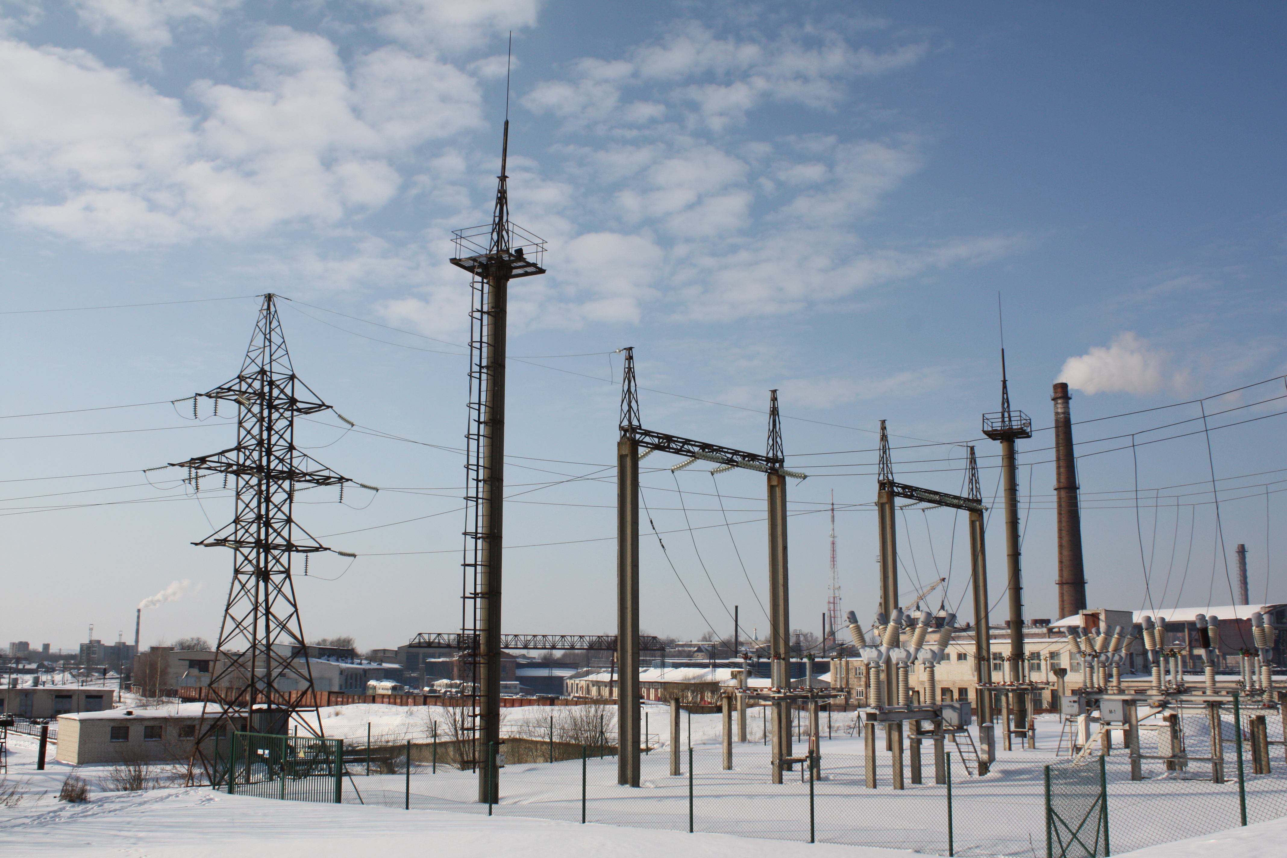 Electrical substation in the Cherepovo neighbourhood of Daugavpils.